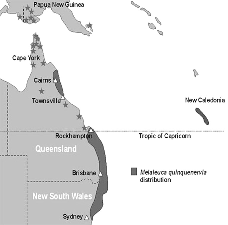 Melaleuca quinquenervia distribution in Australia and neighboring islands. Solid black colors adn stars represent continuous and relatively isolated M. quinquenervia forests, respectively. (Map by D. Johnston.)